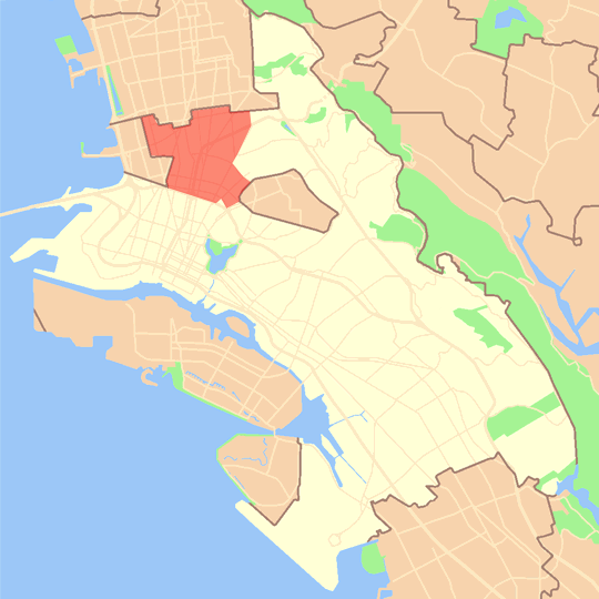 Uploading map of North Oakland based on maps by User:Nogood. Blank map can be found at Image:Oakland_blank_locator_map.png